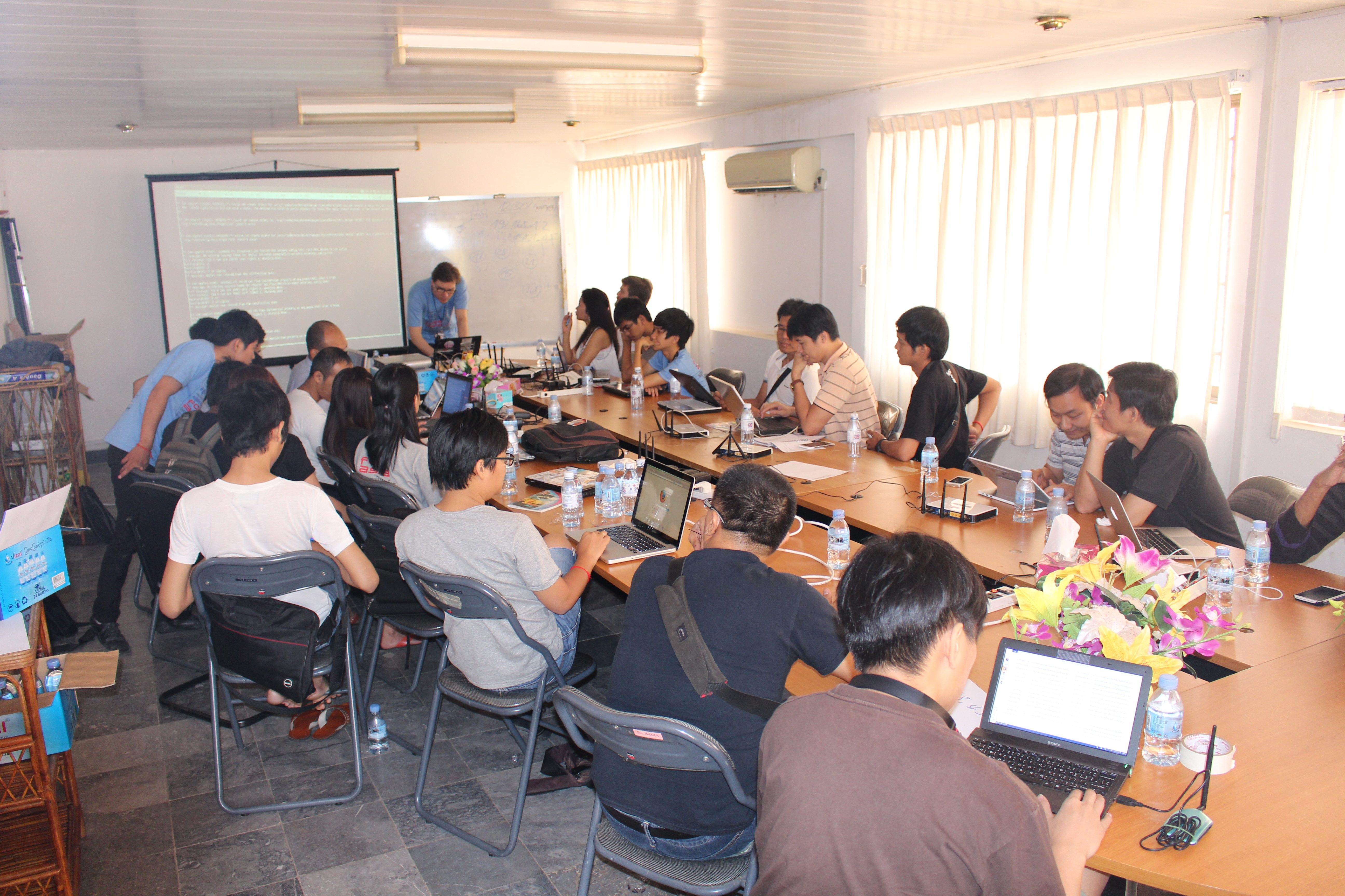 Picture shows people participating in FOSSASIA 2014 conference